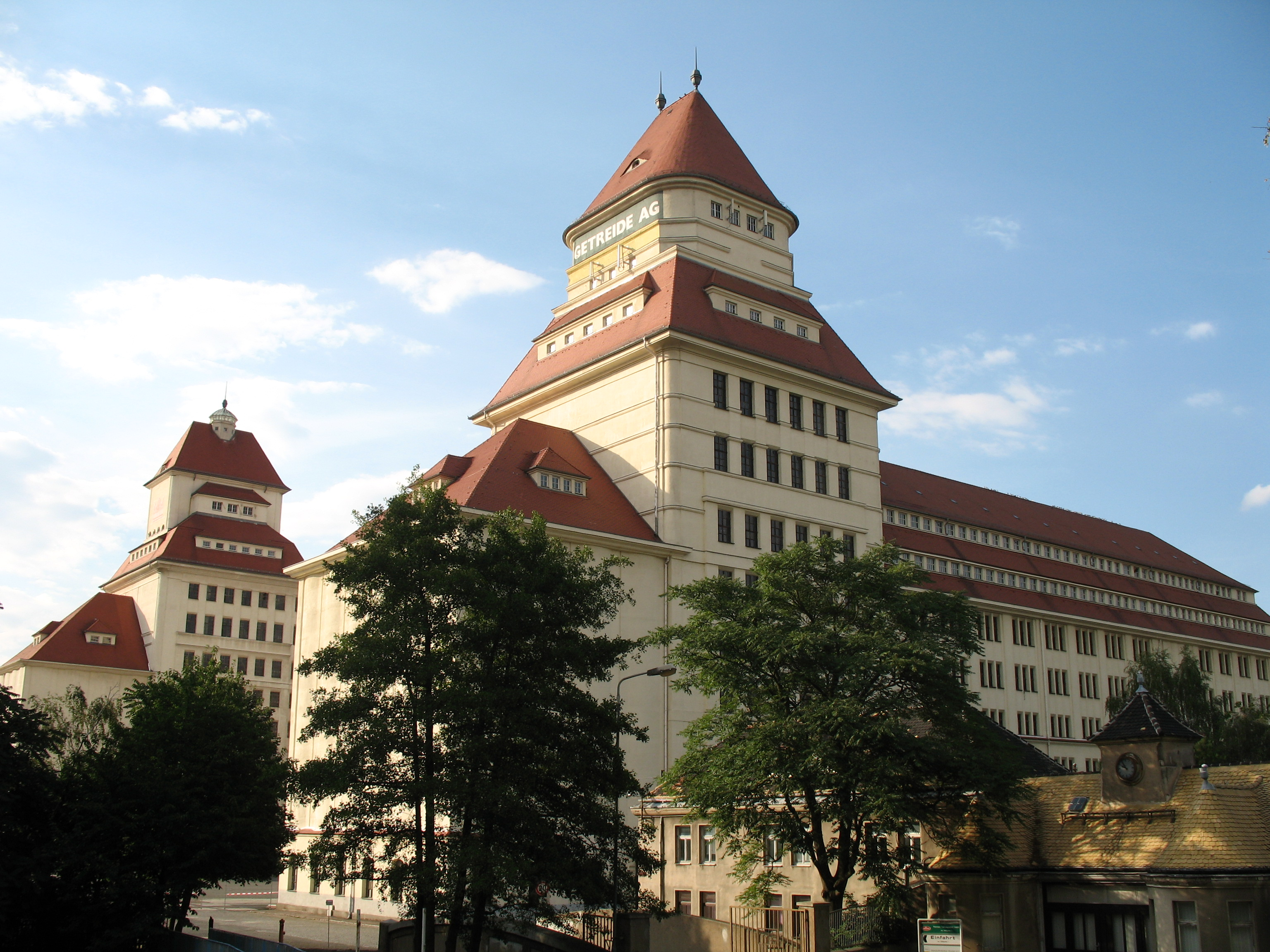 The mill in Wurzen, Saxony, Germany